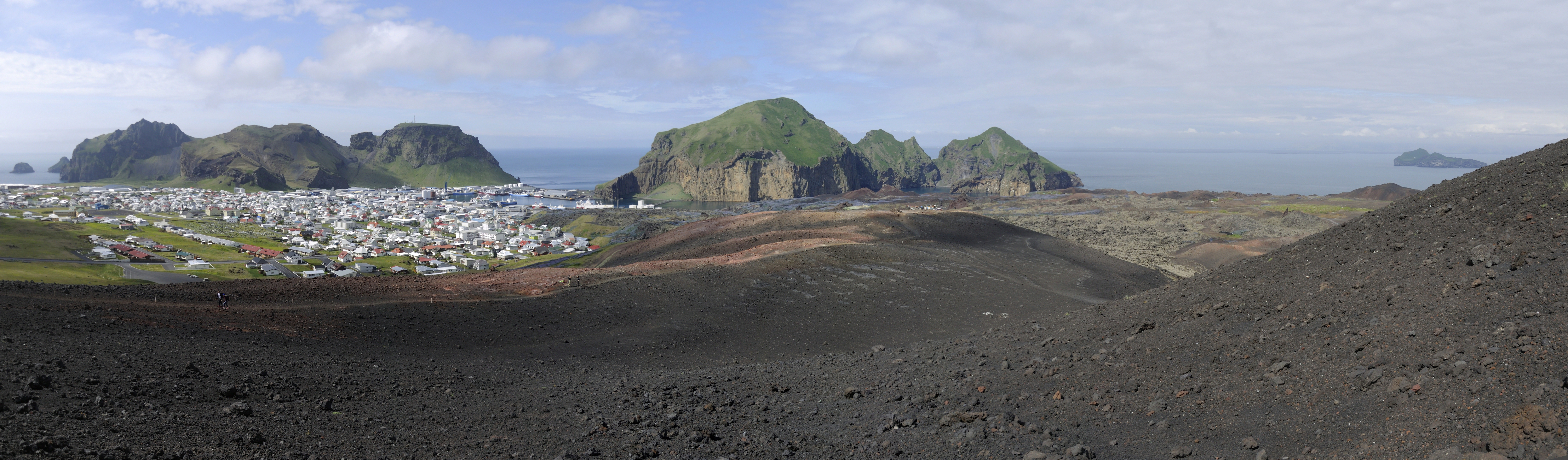 Iceland, another daytrip to Vestmannaeyjar